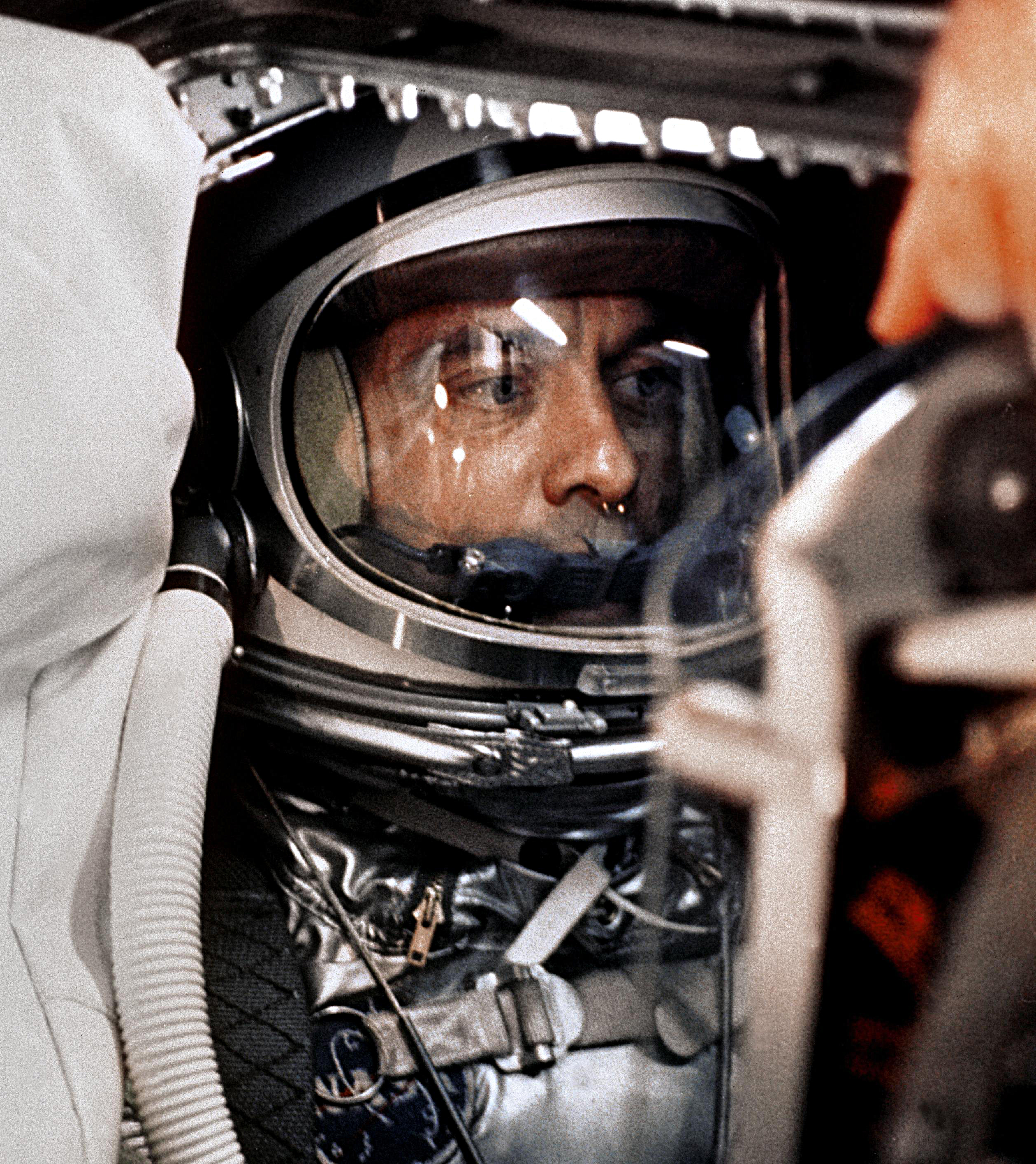 Astronaut Alan B. Shepard, Jr. sits in his Freedom 7 Mercury capsule, ready for launch. Just 23 days earlier, Soviet cosmonaut Yuri Gagarin had become the first man in space. That little race between Gagarin and me, Shepard said, was really, really close. After several delays and more than four hours in the capsule, Shepard was ready to go, and he famously urged mission controllers to fix your little problem and light this candle.